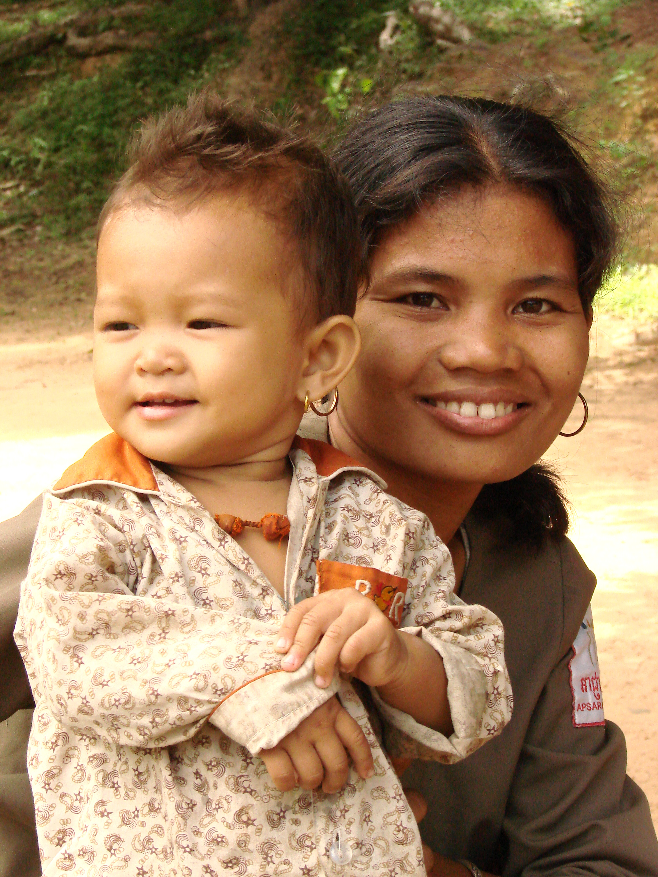 Mother and child, Neak Pean temple, Angkor, Cambodia. May 2009.